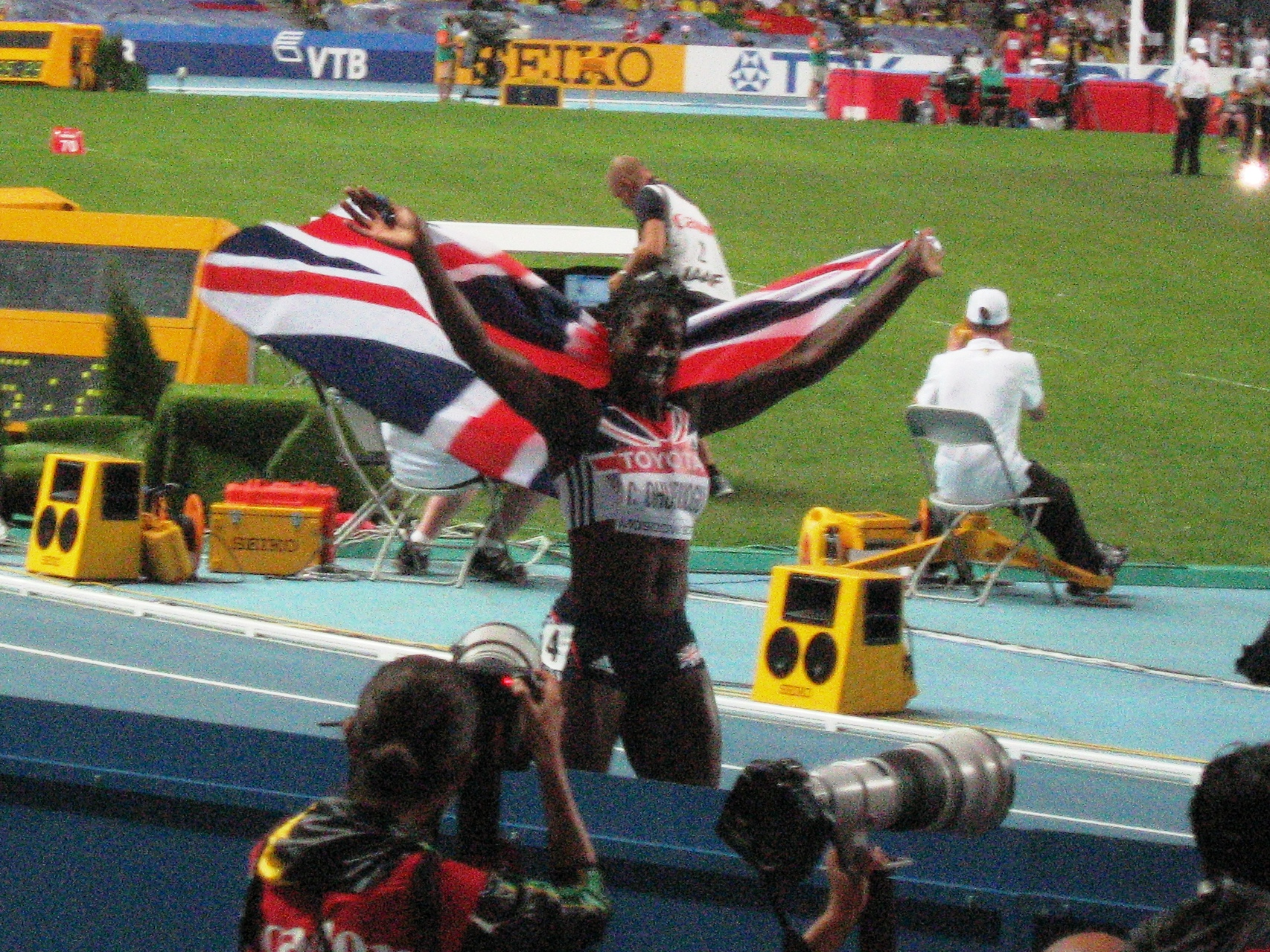 The second day of the World Championships in Athletics in Moscow 2013